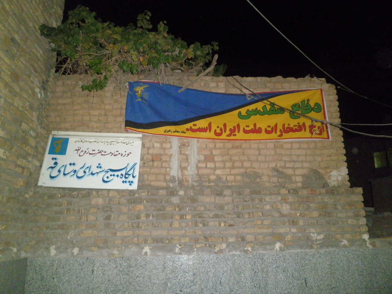 بسیج قه